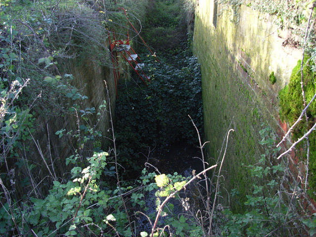 Drayton Lock on the abandoned Wilts and Berks Canal west of Drayton, Vale of White Horse, Oxfordshire (formerly Berkshire)